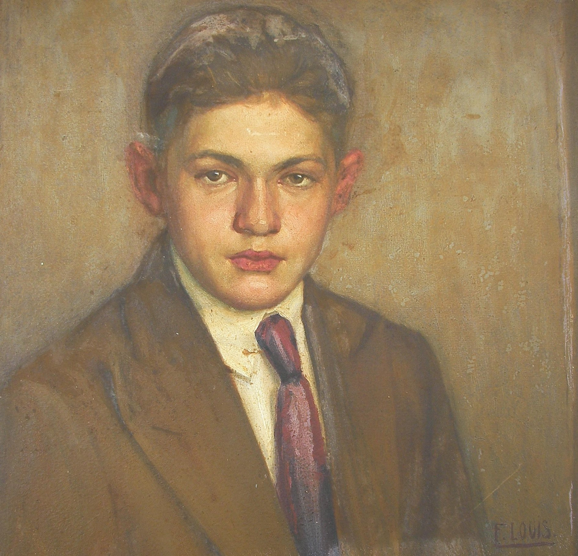 This is a portrait painted by the artist Ferdinand Louis 'Fritz' Schlemmer of his sister Caroline Schlemmer Weidling's son, Carl Philip Weidling, Jr, usually known as Philip Weidling. Philip Weidling (1905-1995) was a Florida writer and historian. The painting was made when Philip was about 15 years old.